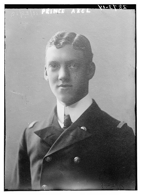 Prince Axel of Denmark as a young naval officer